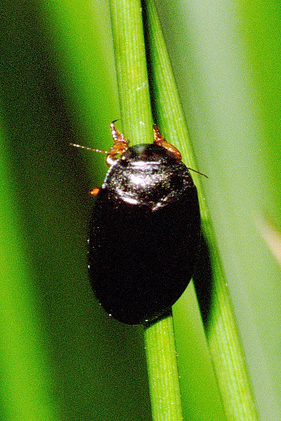 Picture taken in Commanster, Belgian High Ardennes . Please contact James Lindsey when you think this is a different taxon. James Lindsey, the copyright holder of this work, hereby publishes it under the following licenses: Attribution: James Lindsey at Ecology of Commanster